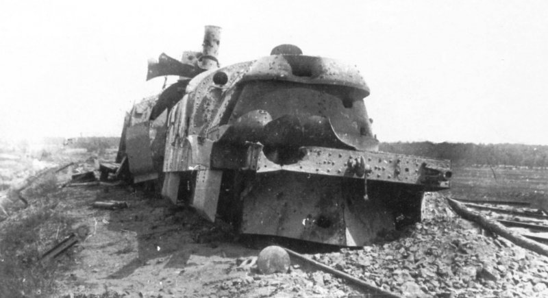 Destroyed Hunhuz armoured train, foresight.